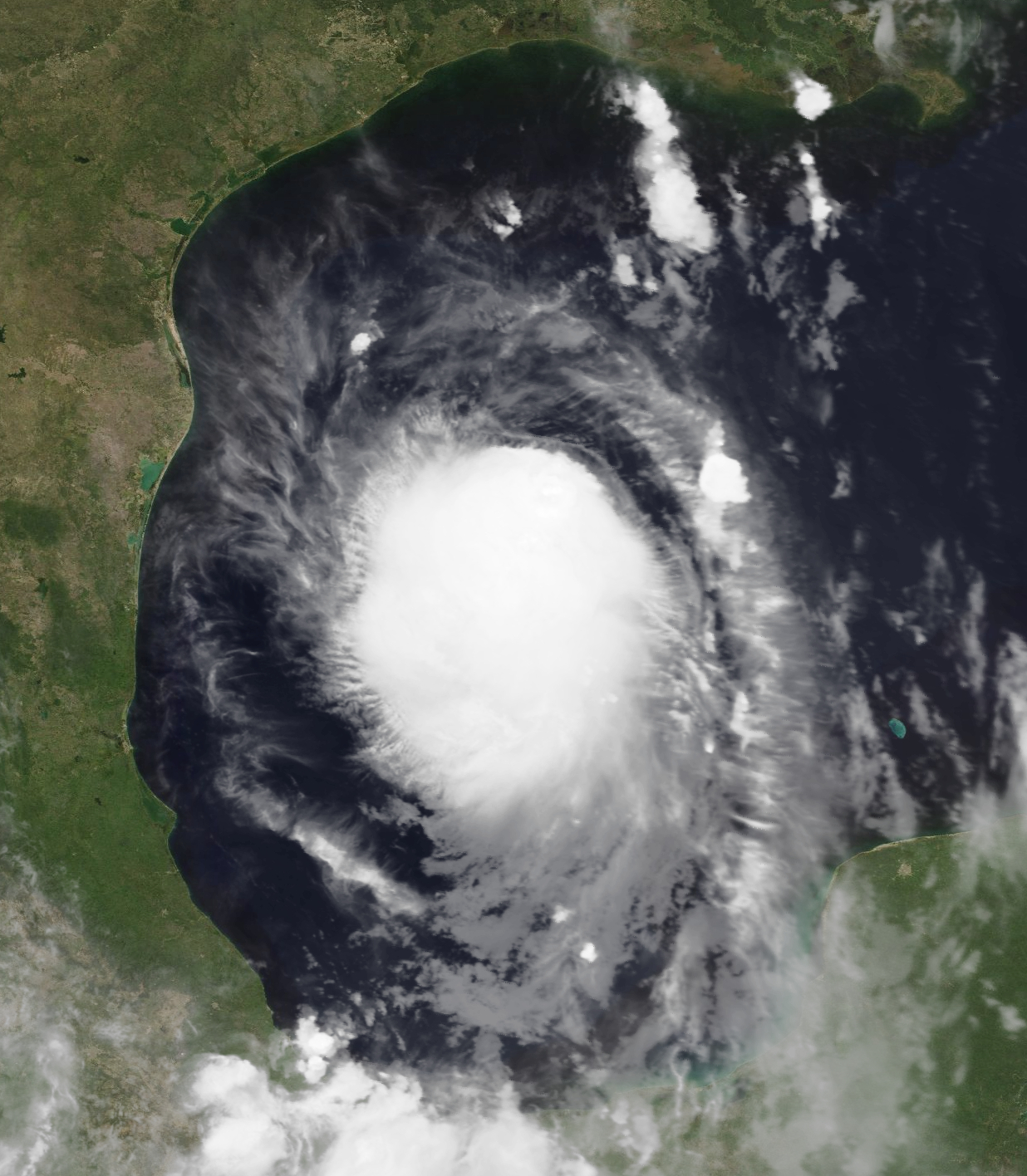 Tropical Storm Don shortly after peak intensity on July 29, 2011.